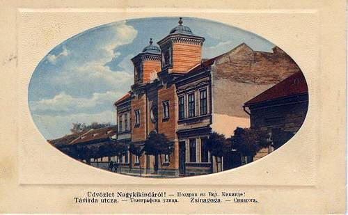 Postcard showing the Synagogue in Kikinda destroyed in 1953